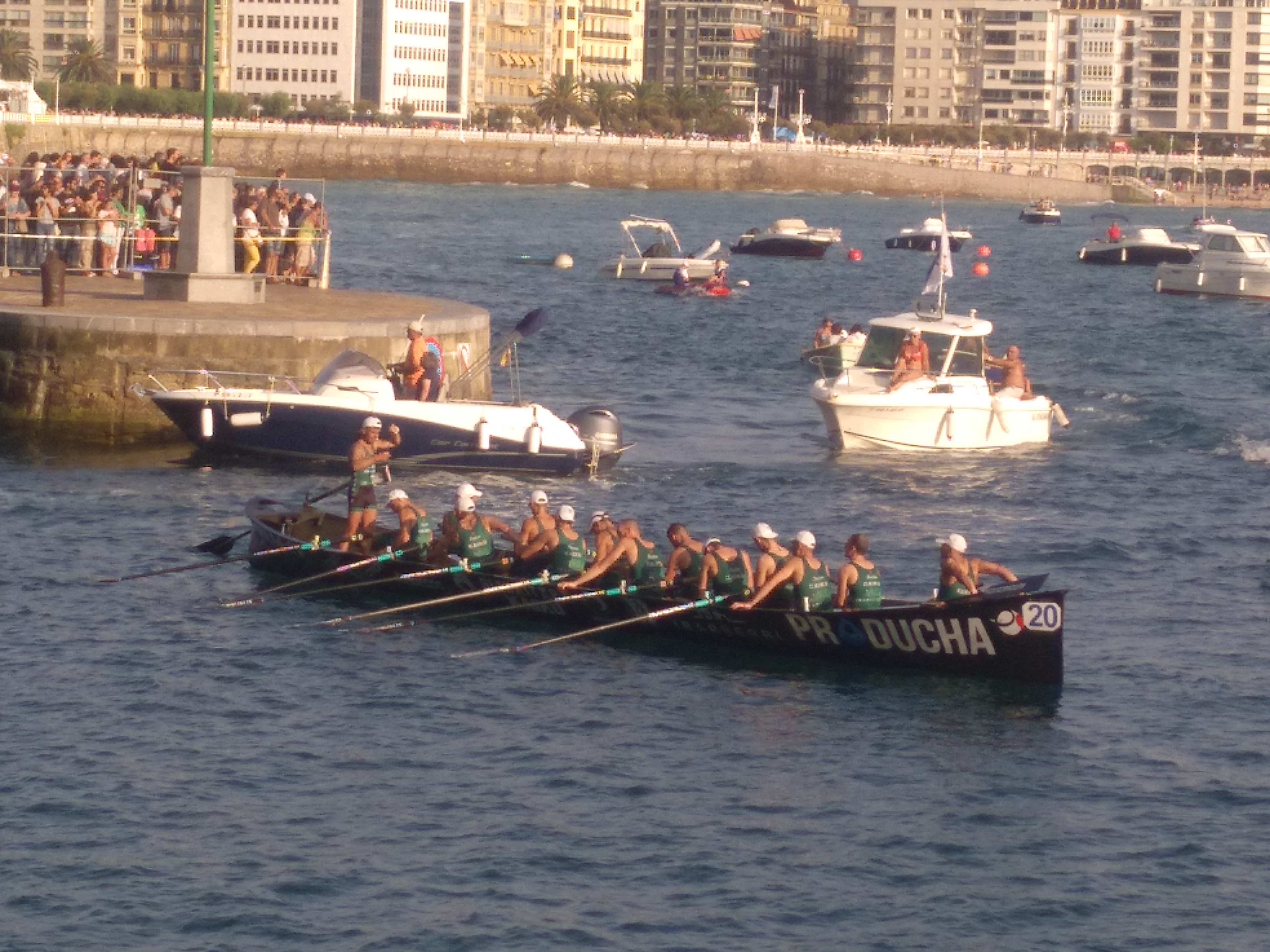 Kaiku AKE, Flag of La Concha, 2018